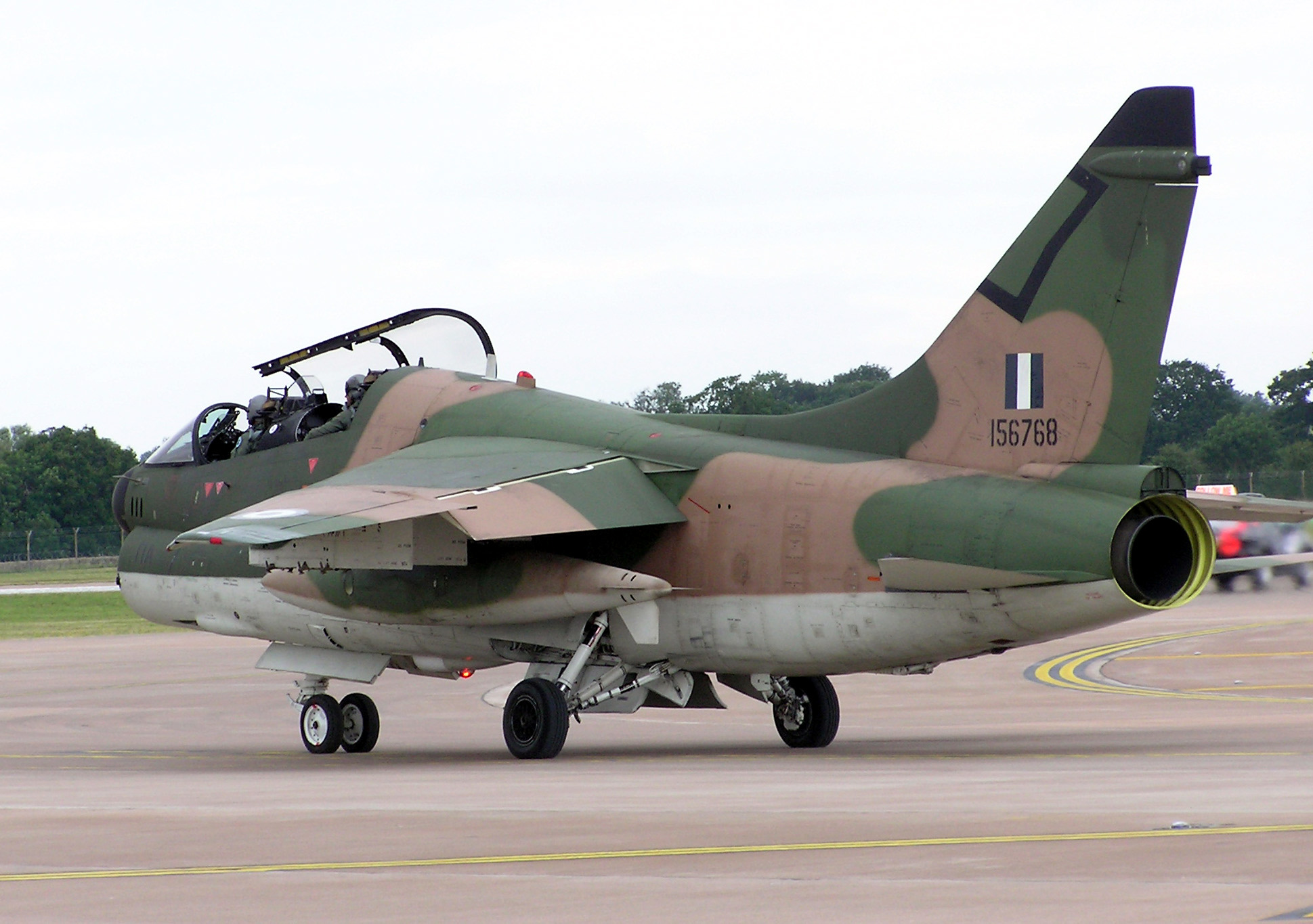 Ling-Temco-Vought TA-7C Corsair II of the Greek Air Force, taxying at the Royal International Air Tattoo at Fairford, Gloucestershire, England. Photographed by Adrian Pingstone in July 2005 and released to the public domain.